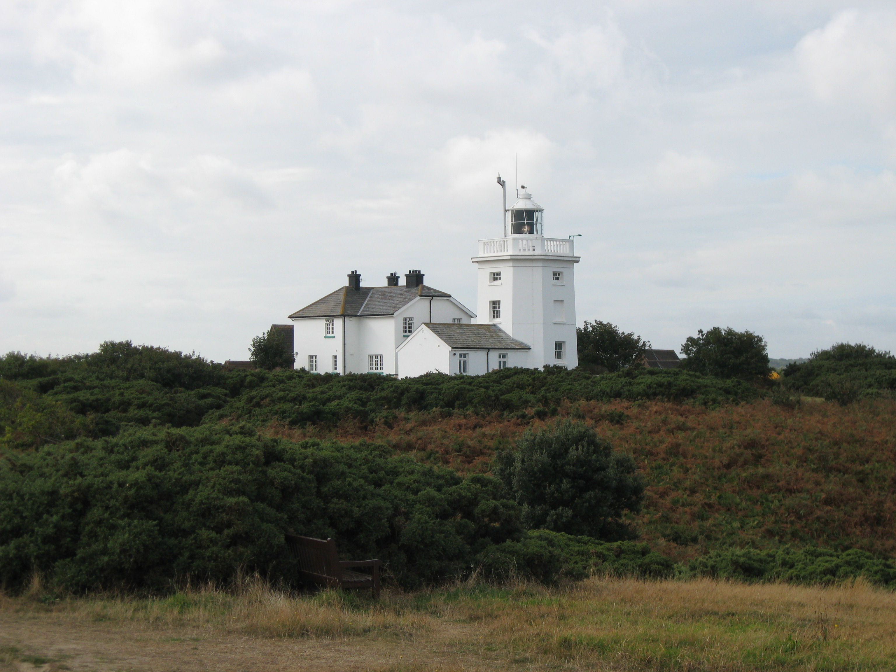 Photo September 2009